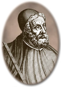 An early modern period engraving depicting the 2nd century philosopher Claudius Ptolemaeus, anachronistically shown bearing a cross-staff. Source: Les vrais portraits et vies des hommes illustres, Paris, 1584, f° 87